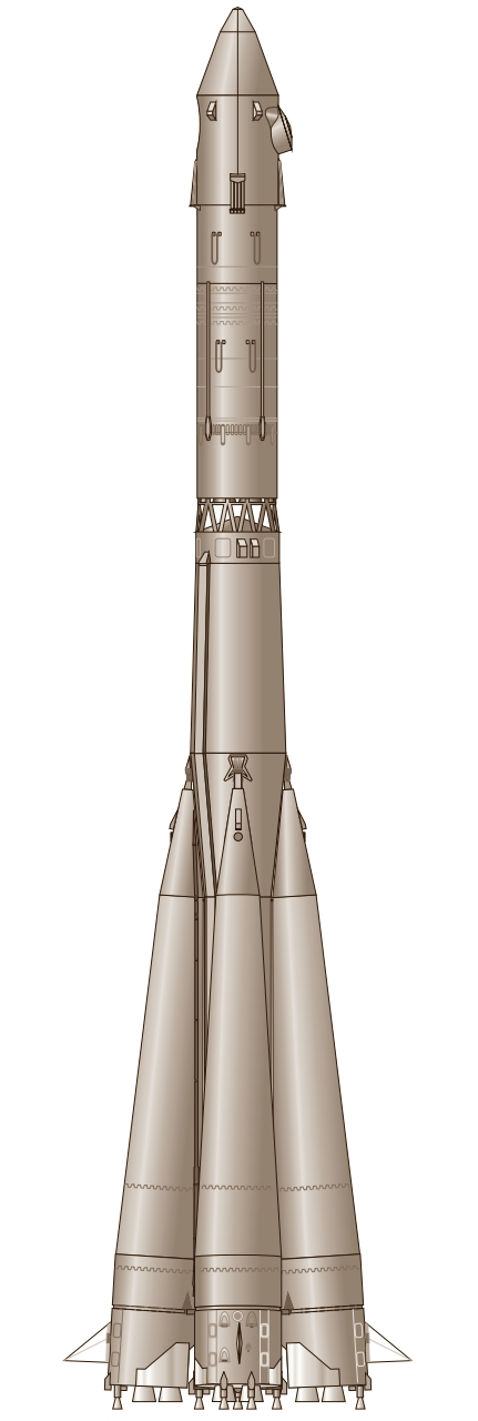 Voshod Rocket